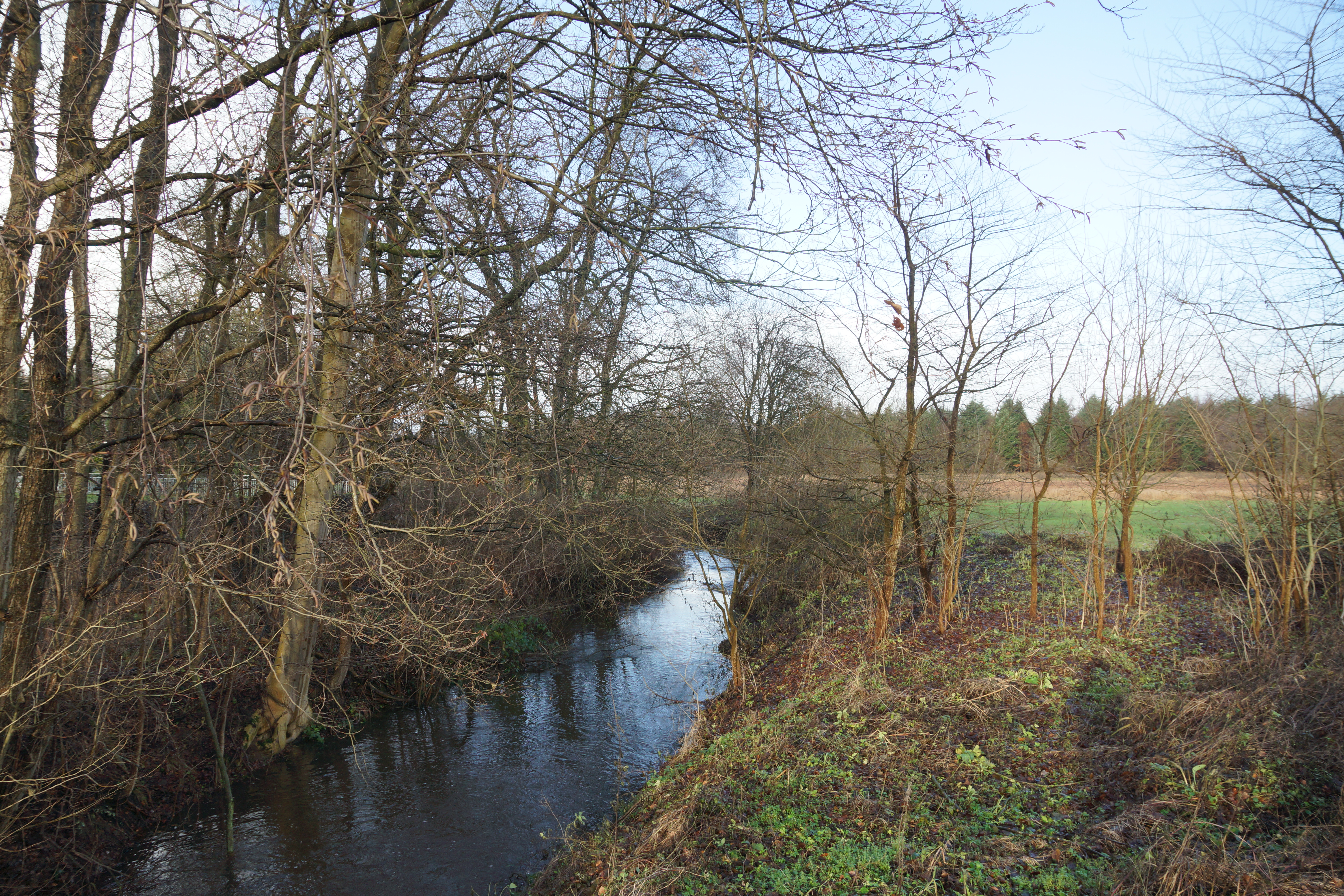 Oersdorf (Oersrdorf), Germany: Ohlau